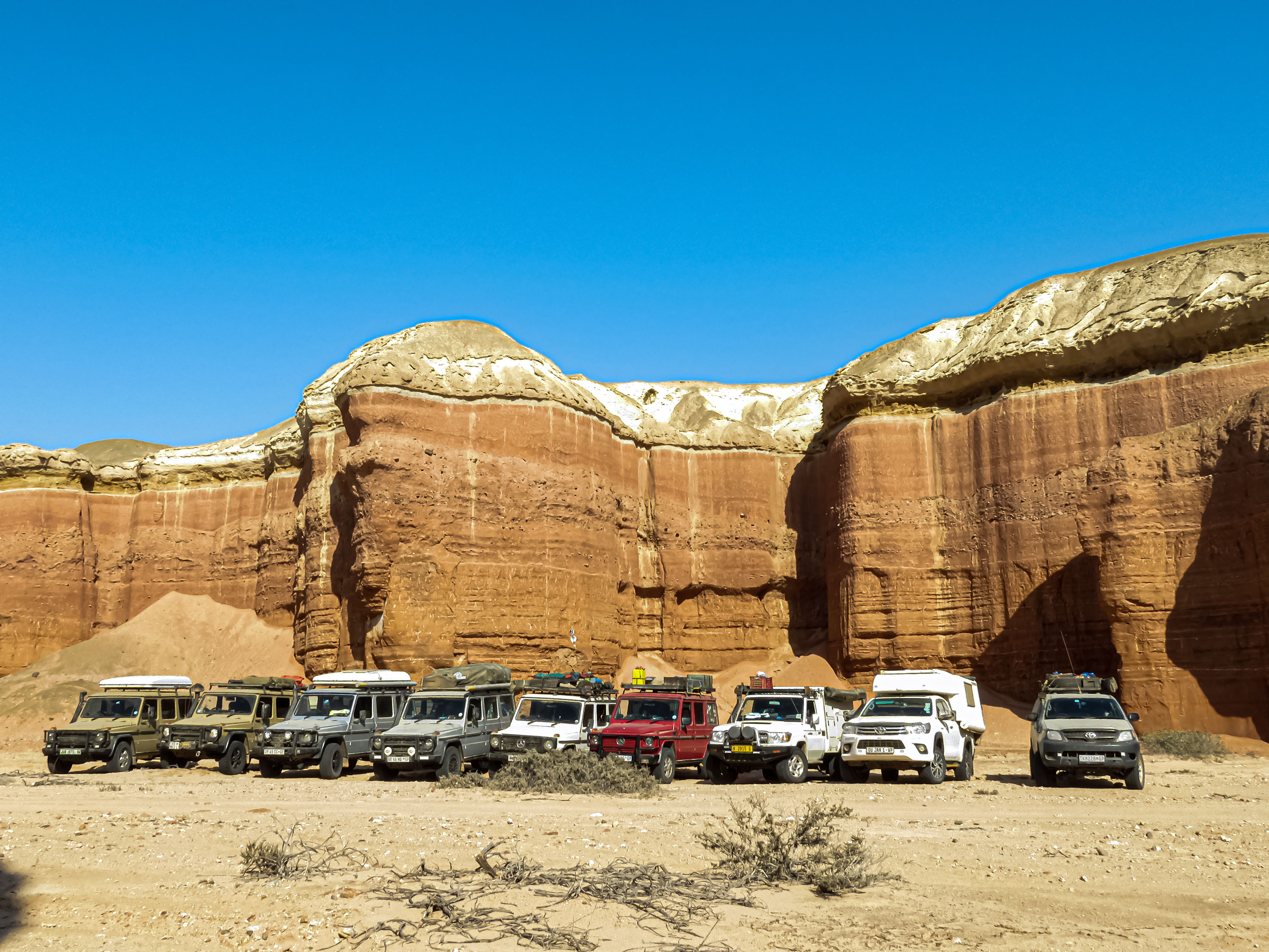 Bakkies in the flinstone valley This is an image with the theme "Africa on the Move or Transport" from: Angola